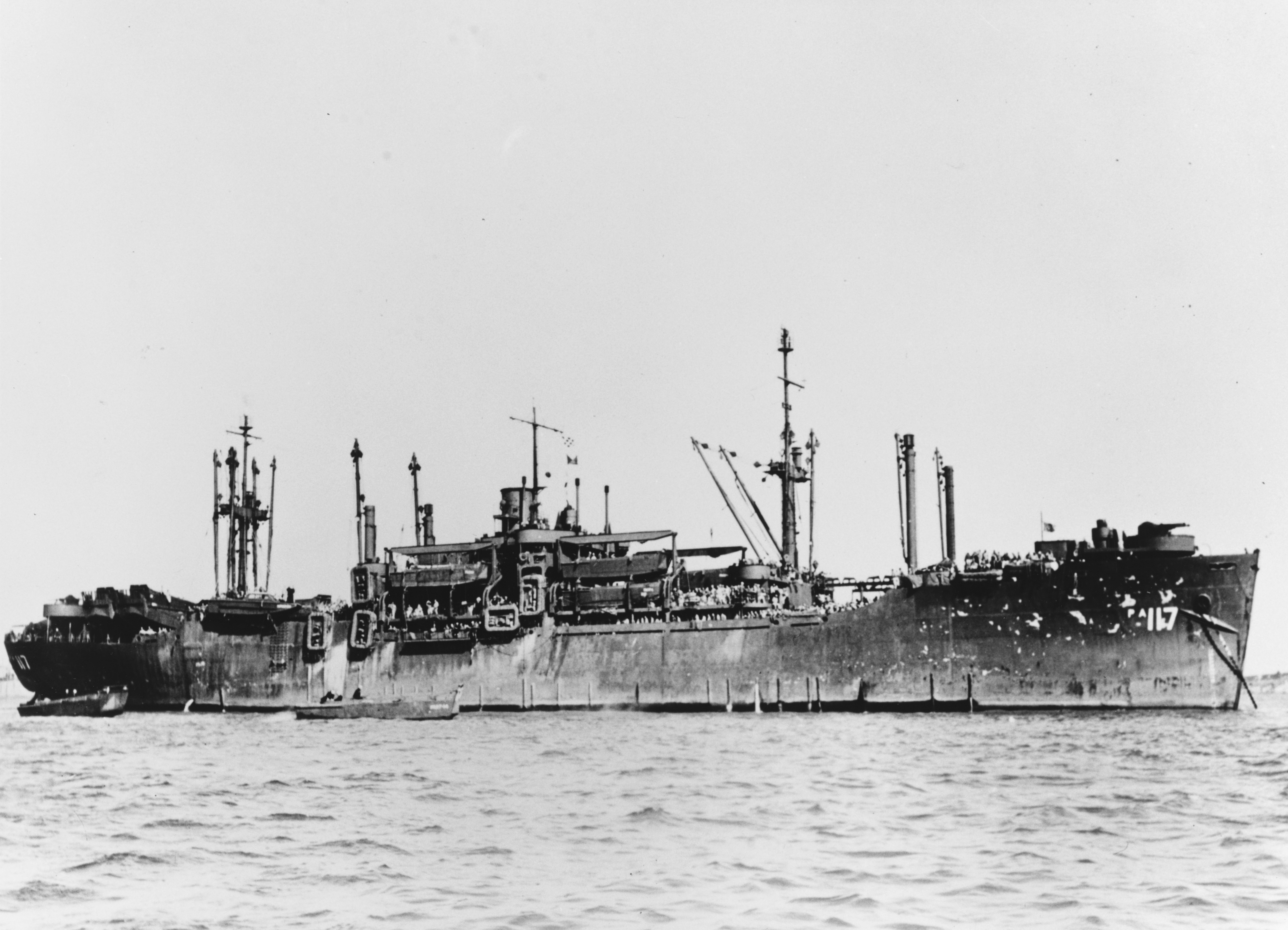 The U.S. Navy attack transport USS Haskell (APA-117) anchored off San Francisco, California (USA), circa late 1945.